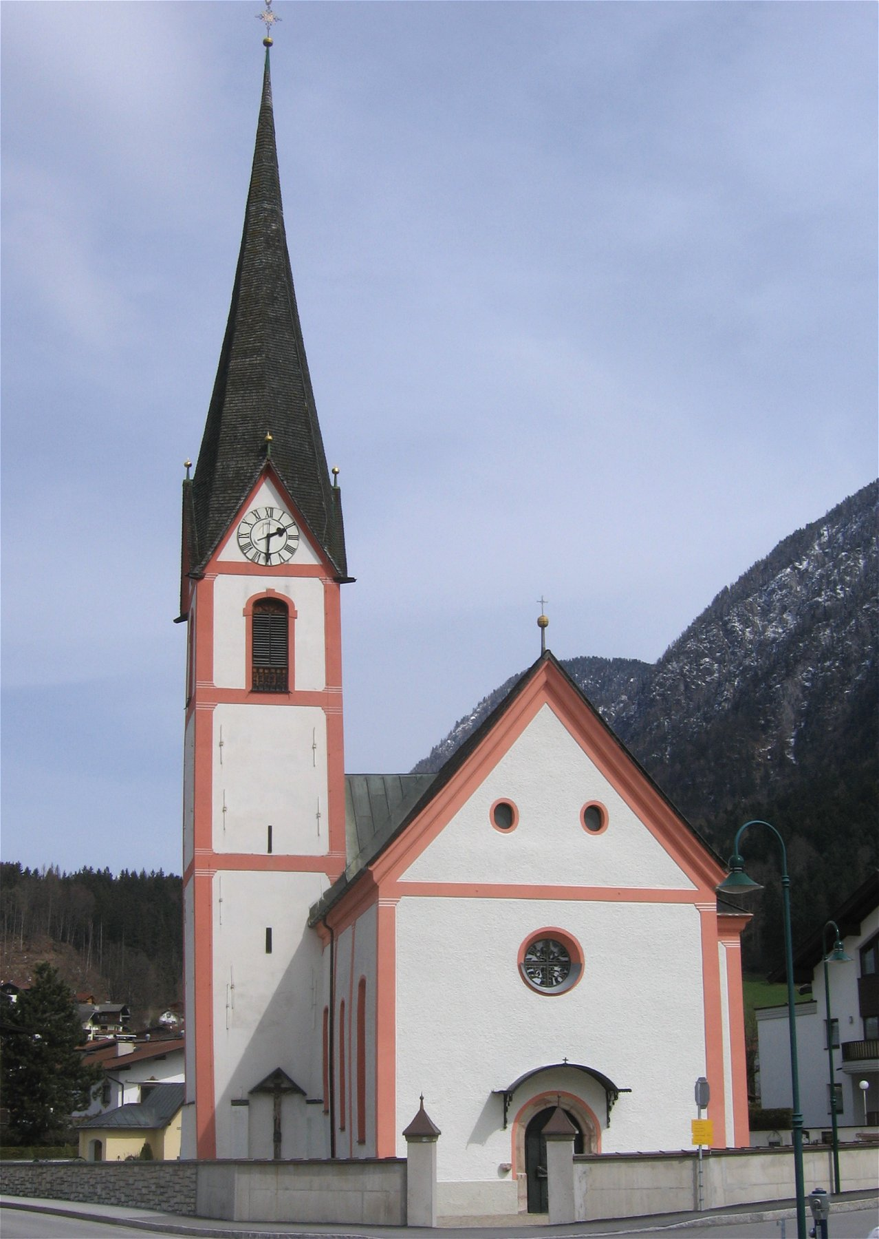 Bad Häring, Parish Church of St John the Baptist from south-west.